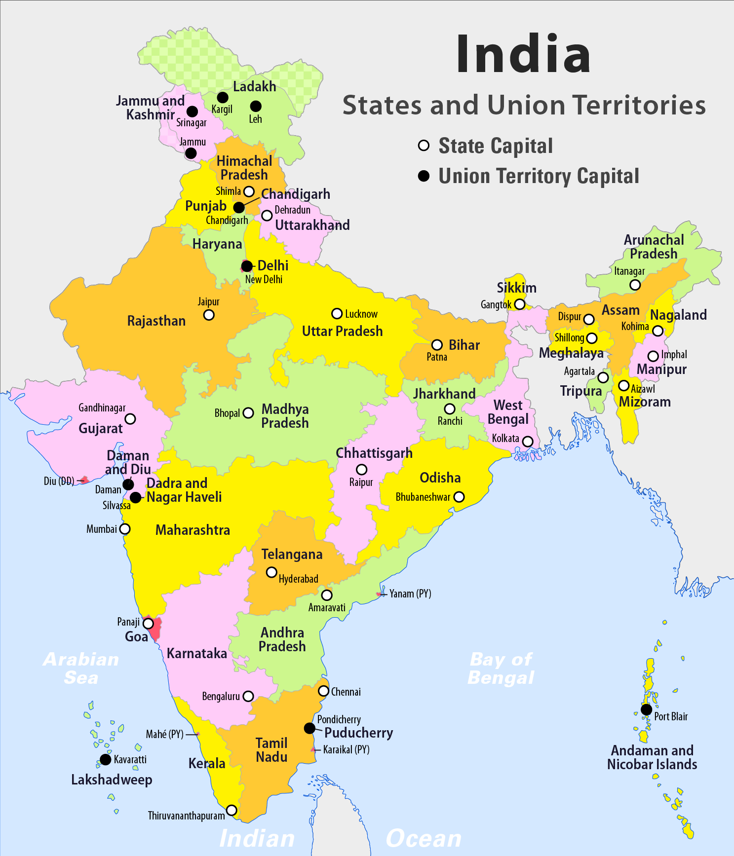 Administrative Map of India with States an Union Territories